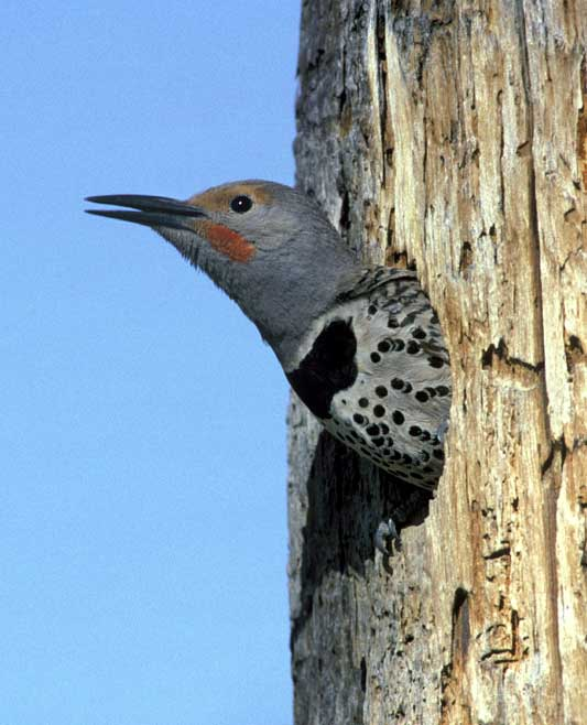 Colaptes auratus(cropped image)A Northern flicker pokes its head from its nesting area before taking flight in the Deschutes National Forest located in Oregon.